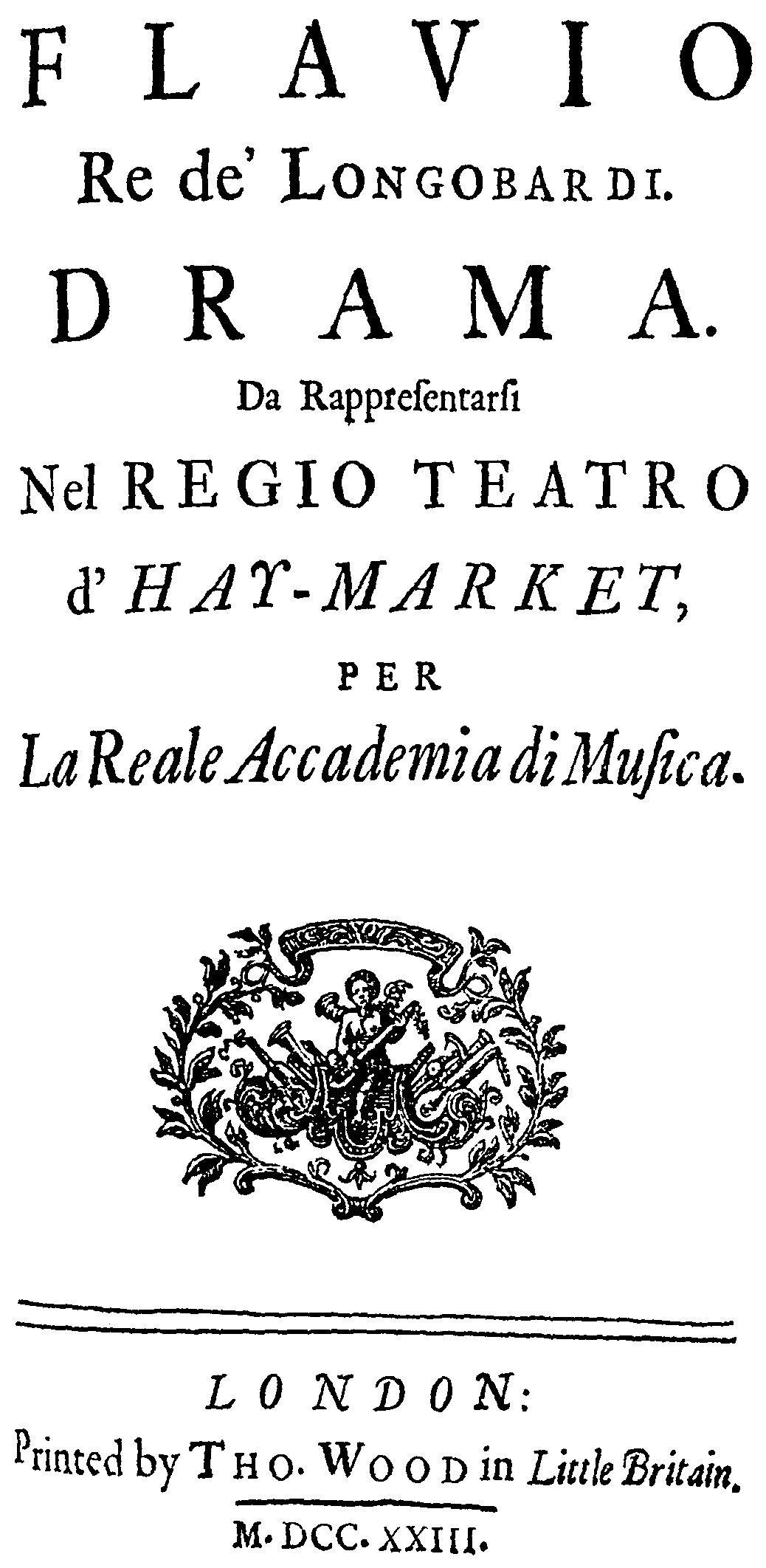 Georg Friedrich Händel - Flavio - title page of the libretto - London 1723